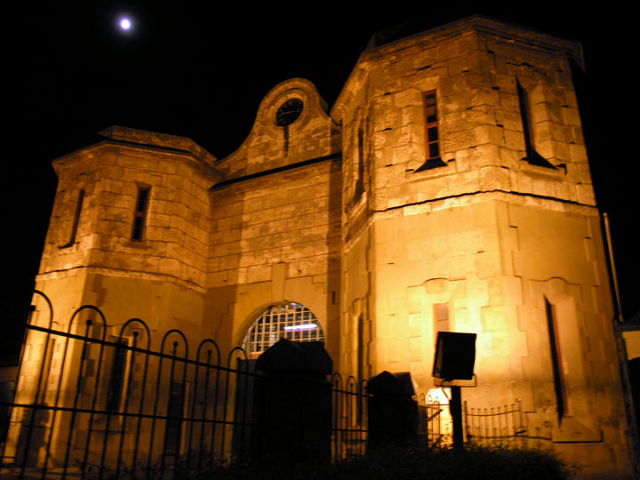 Fremantle Prison Gate house, Western Australia on a cold moonlit night, prior to restoration. I took this picture myself using an Olympus C8080W.